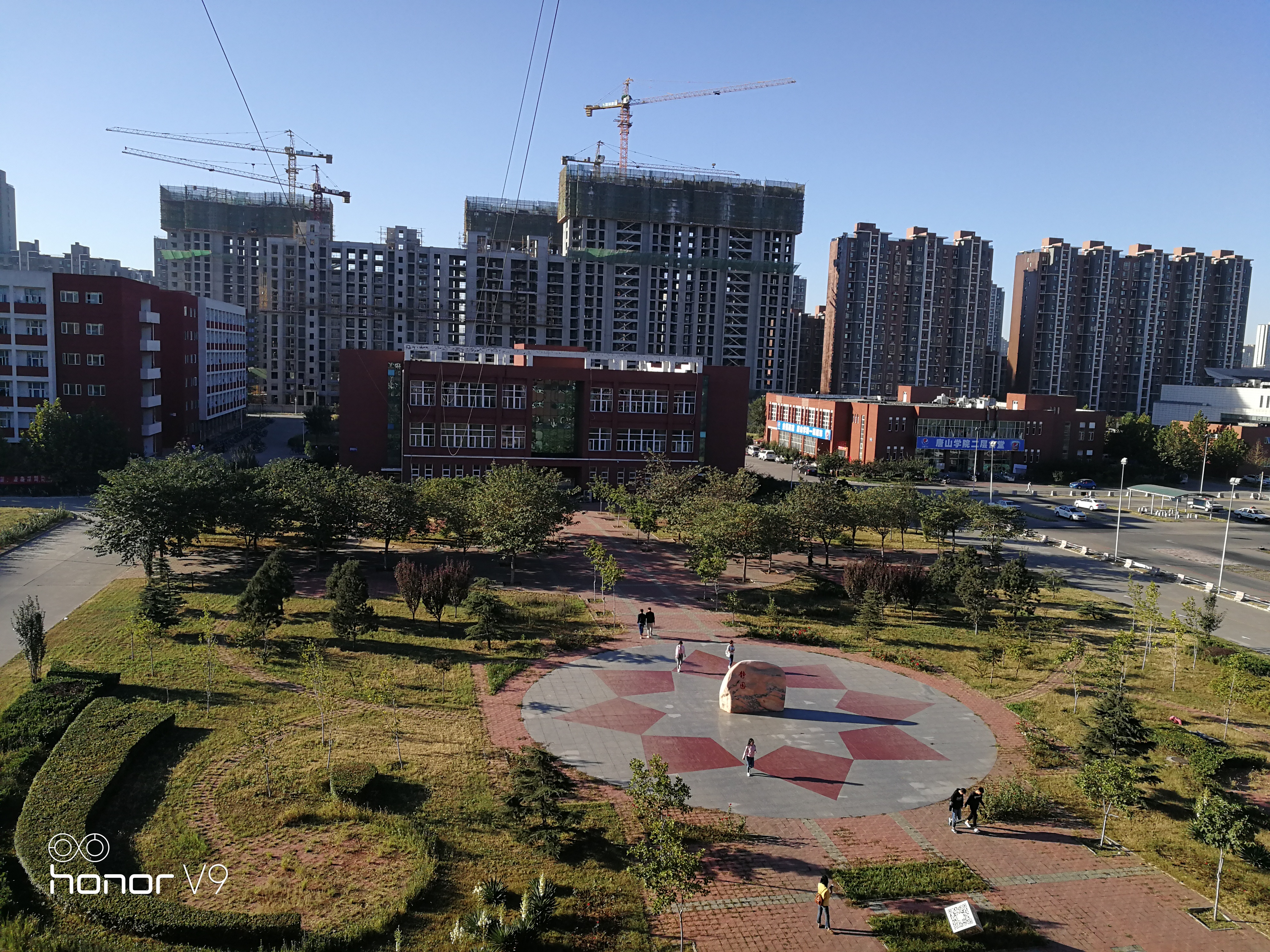 Taken from the main teaching building.